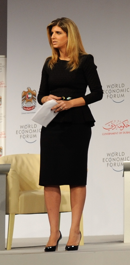 DUBAI, UNITED ARAB EMIRATES, 13 November 2012 - Lara Habib, Senior Presenter, Al Arabiya News Television, United Arab Emirates, moderates a televised panel discussion at the World Economic Forum's Summit on the Global Agenda 2012 held in Dubai from 12-14 November 2012. Copyright World Economic Forum ( by Norbert Schiller